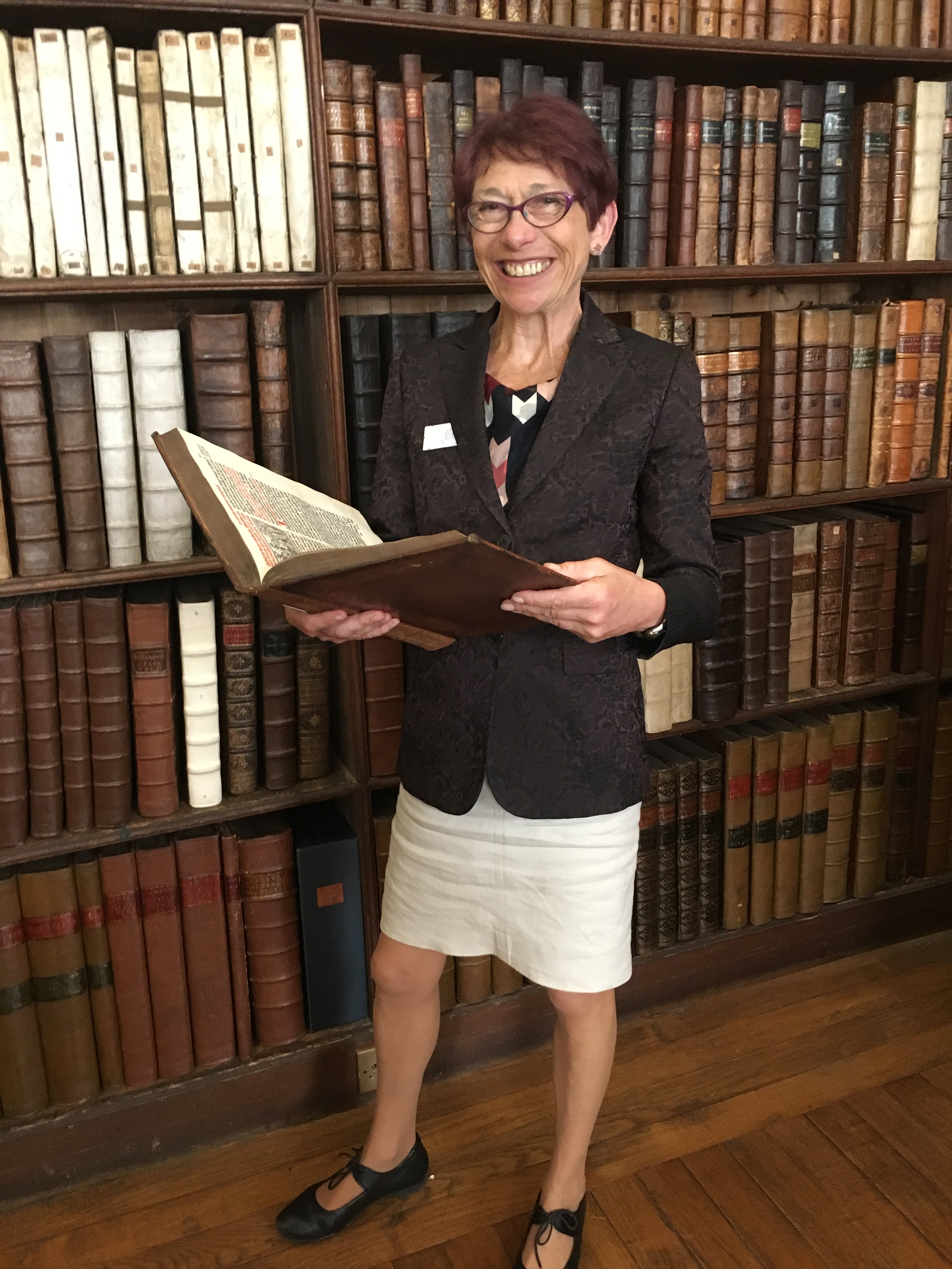 Historian of science Patricia Fara in the Fellows' Library at Clare College, Cambridge, U.K.